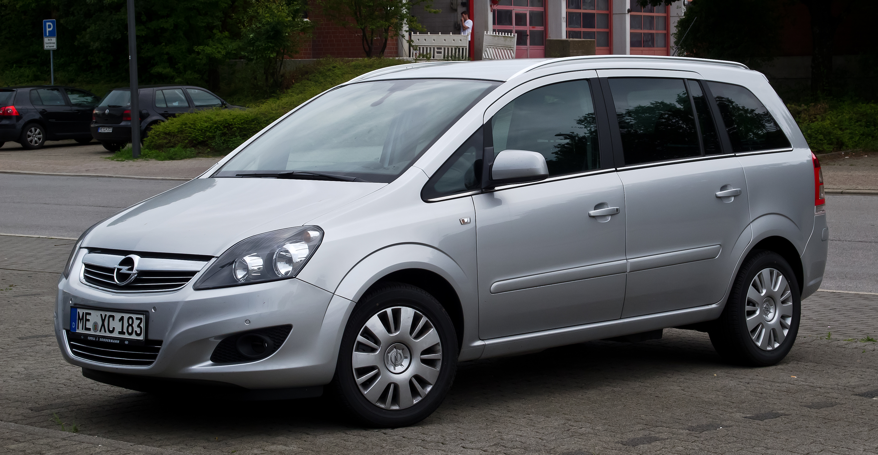 Opel Zafira 1.6 CNG ecoFlex Turbo Design Edition (B, Facelift)